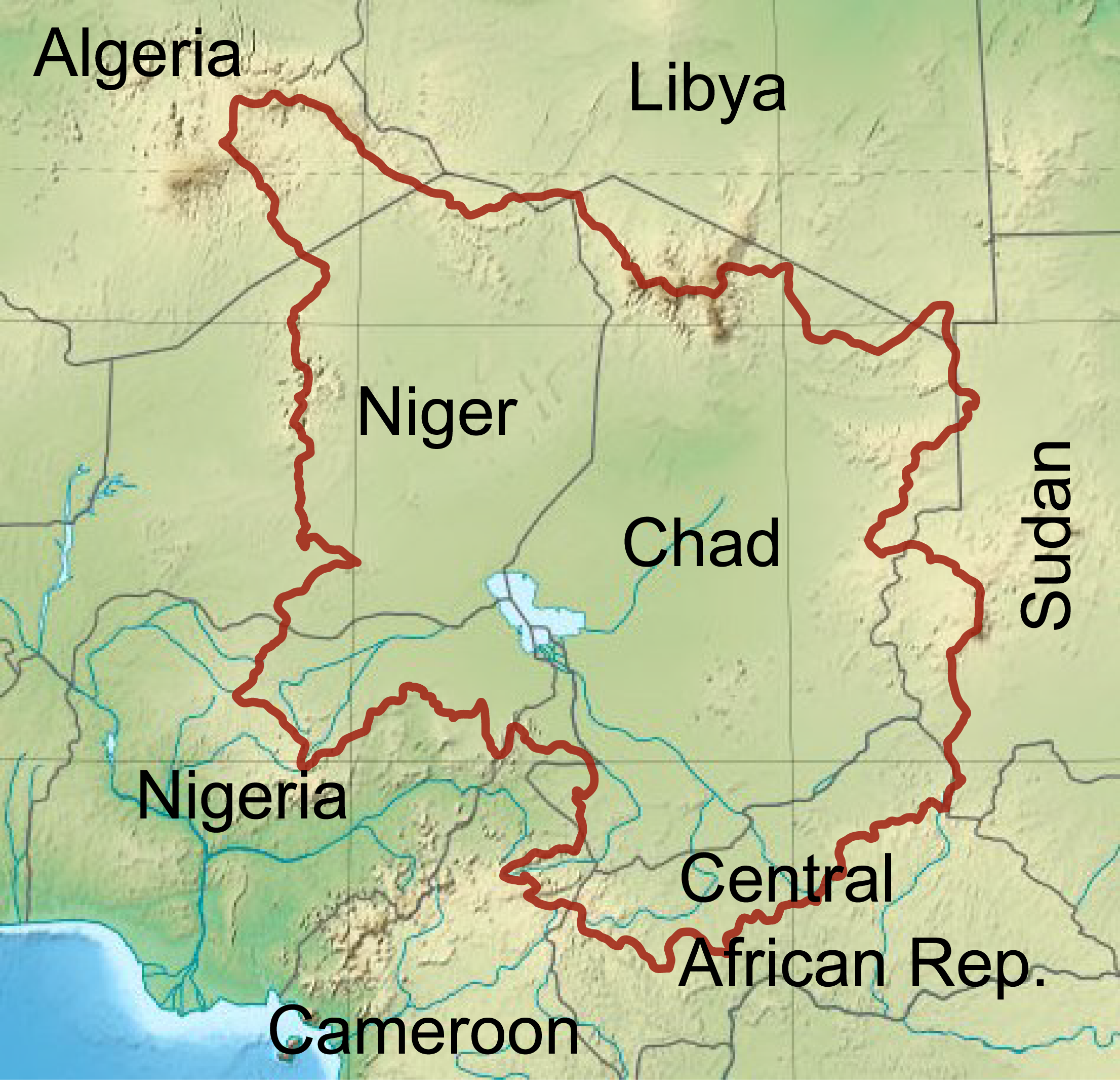 Relief map of the Chad basin